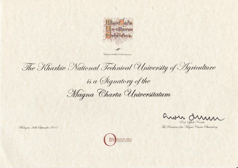 Харківський національний технічний університет сільського господарства імені Петра Василенка, виконуючи завдання Міністерства аграрної політики та продовольства України, щодо інтенсифікації міжнародного співробітництва, в результаті тривалого моніторингу з боку Наглядової Ради Великої Хартії у ніверситетів світу, отримав дозвіл на підписання і 20 вересня 2013 року підписав в м. Болонья Велику Хартію університетів (Magna Charta Universitatum).